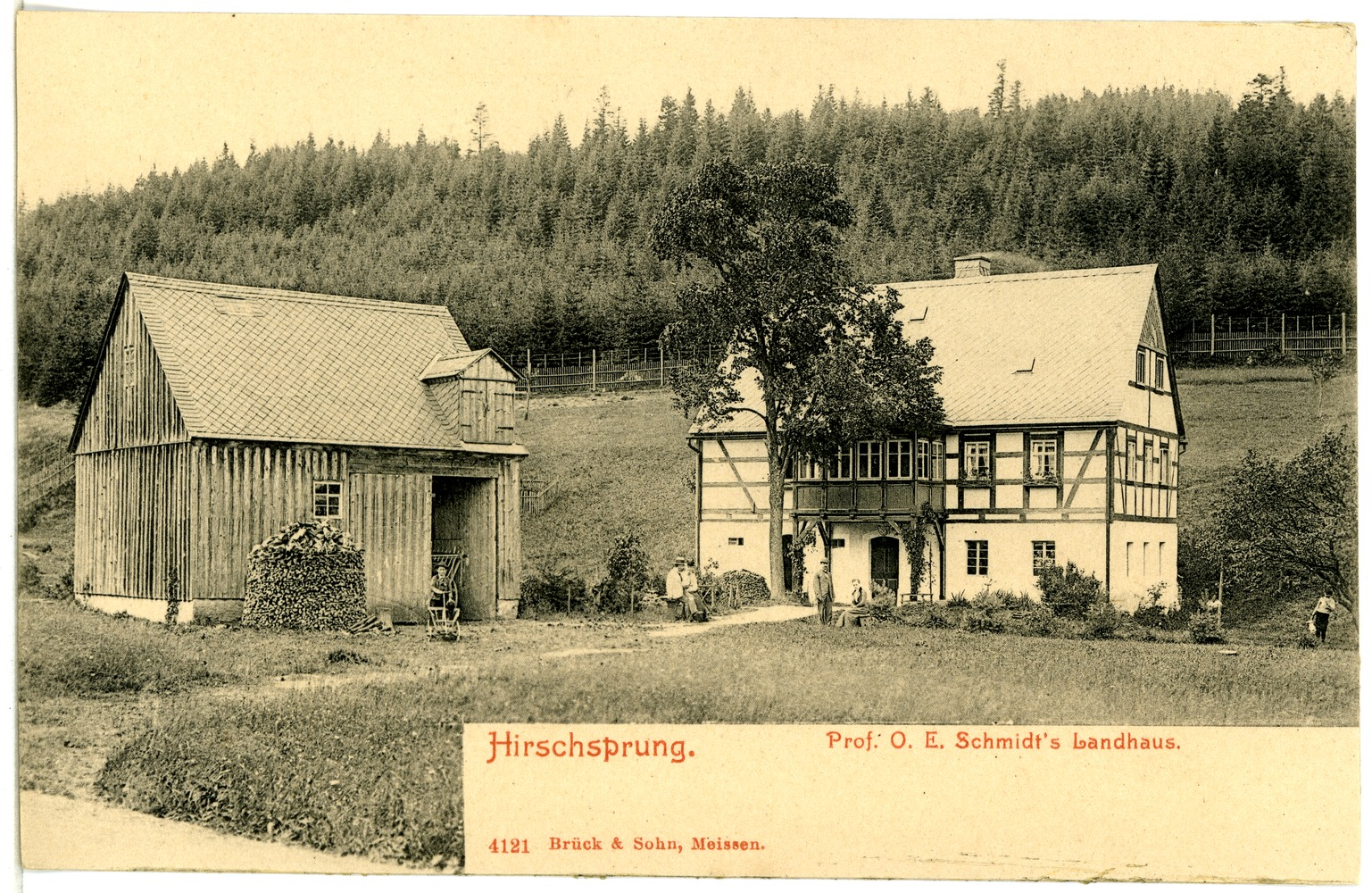 This postcard is from publisher Brück & Sohn in Meißen ( This postcard has a unique number 04121 and is available in a higher resolution at the publisher. This images was uploaded in a cooperation project between Wikipedians and the publisher.